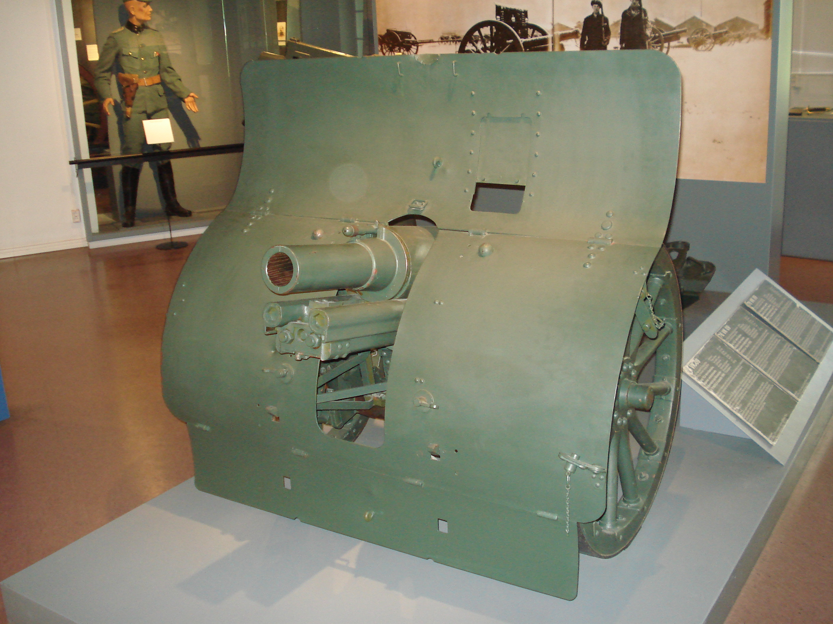 Russian 76 mm mountain gun Model 1909, displayed in Finnish Artillery Museum. Museum description: A 76,2 mm modification of a French Schneider-system mountain gun 75 m.p.c. 4 from year 1909. (3-dm gornaja skorostrelnaja pushka obr. 1909 g. Schneider-Danglis 06/09) The gun has a barrel designed by Greek Colonel Danglis. The barrel can be broken into two components. The parts of the gun can be broken into seven mule loads. The 75 mm version of this gun has been in service in Greece, Bolivia and Peru. In Russia a bit renewed version was used as late as WW II. Only a small portion of the guns has been manufactured in France, most of them in Russia. Russian troops had these mountain guns at their disposal in Finland. In the 1918 War of Independence they were used by both Red and White artilleries. As a war bounty Finnish troops had a total of 11 pieces of 76 mm Mountain Guns, which were used as training pieces up to the year 1924. In the Winter War in 1939-1940 the six worn-out guns were not in use anymore. In 1941 14 more pieces were captured by Finnish troops. This particular piece had its gun-carriage repaired by the Finnish State Gun Factory or VTT in 1942 and 1944. Replacable barrel: manufactured by Russian Putilov in 1914. Photo taken on June 18, 2006. Source: Photo by me, User:Balcer.